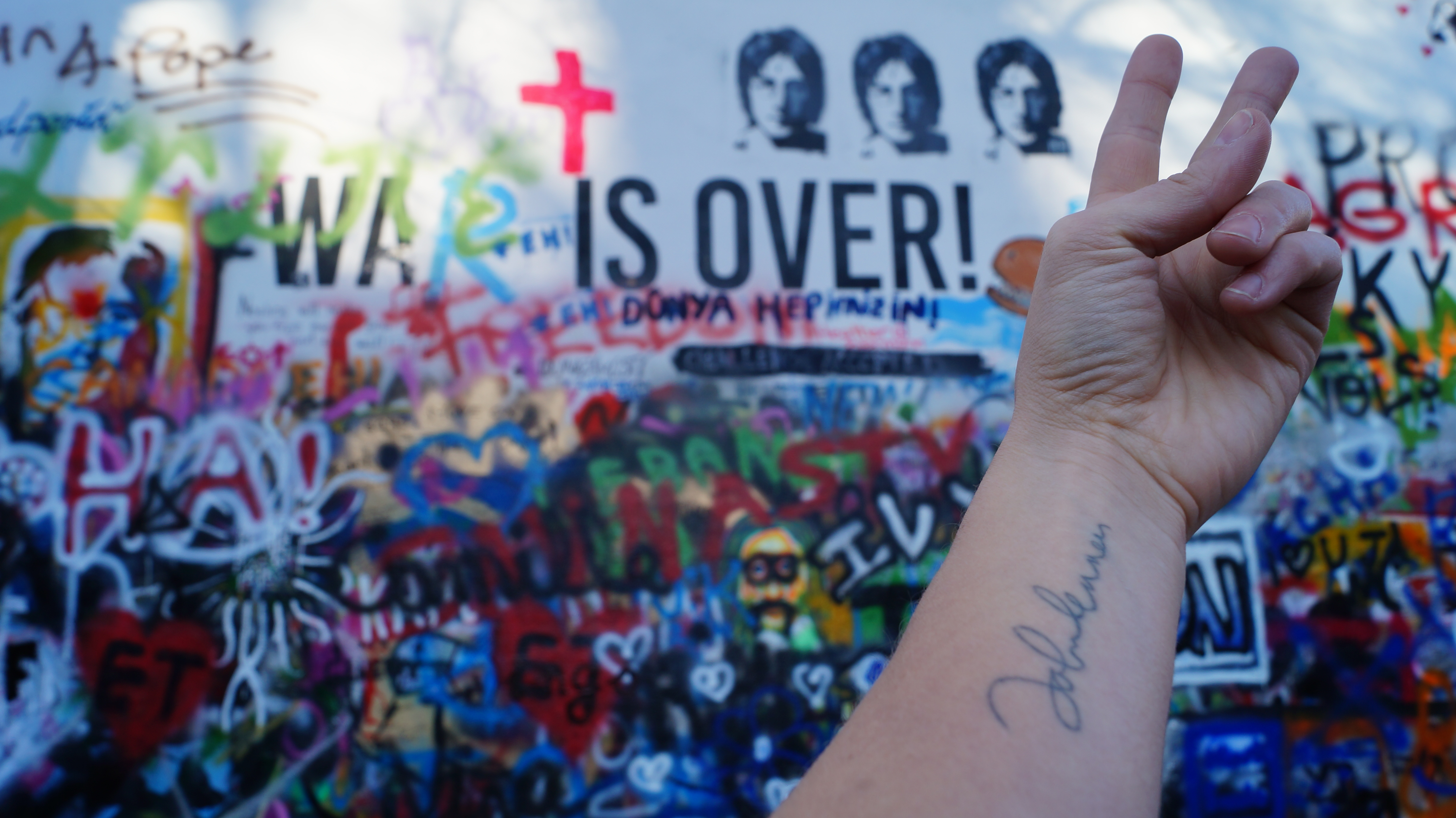 WAR IS OVER - Peace with John Lennon's Autograph